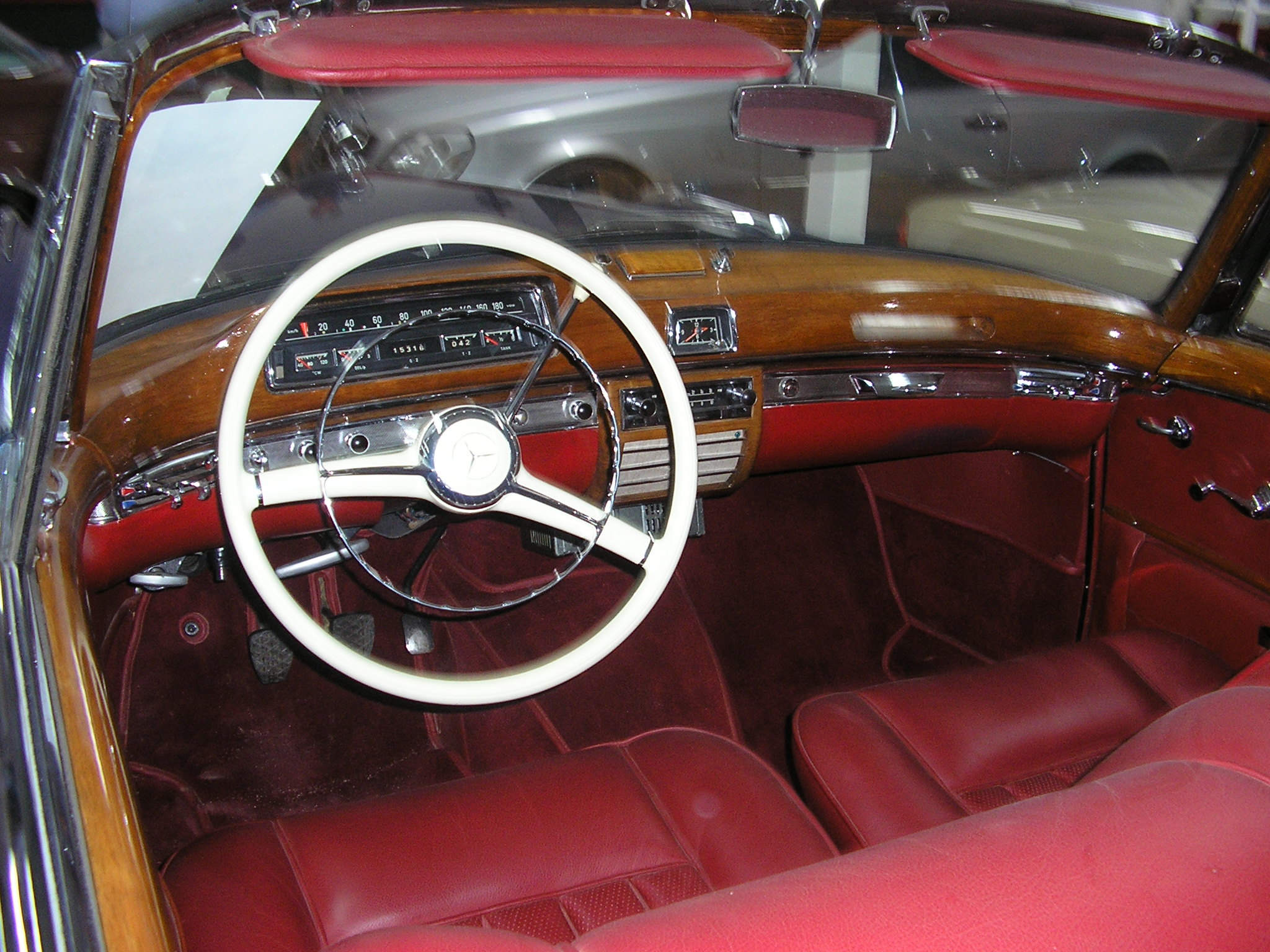 A 1959 Mercedes-Benz 220SE. 6 cylinder fuel injected engine giving 115 hp. Made between 1958 and 1960. Total made 1942.